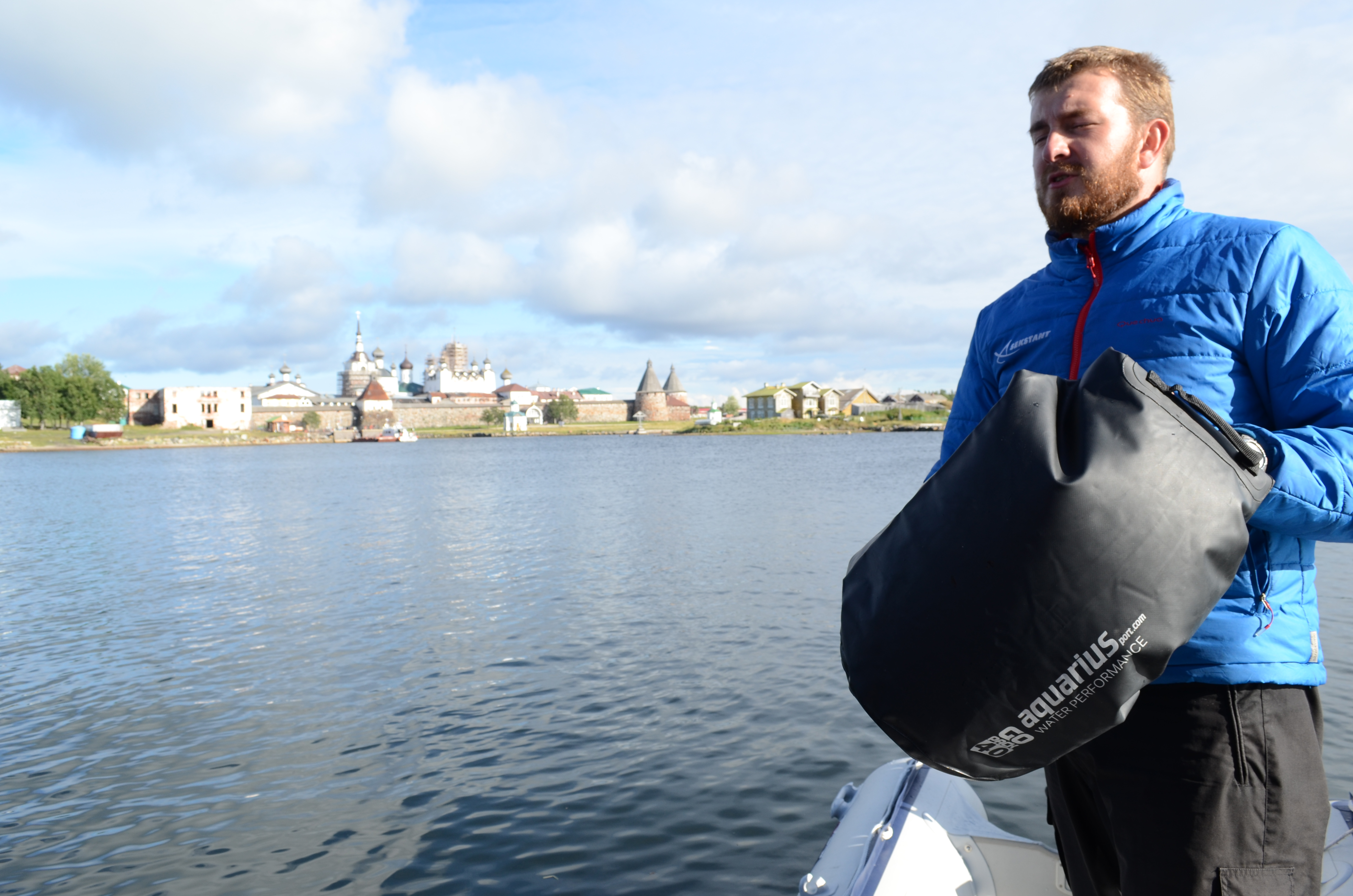 Captain Maciej Sodkiewicz in front of Solovetsky Monastery of Bolshoy Solovetsky Island